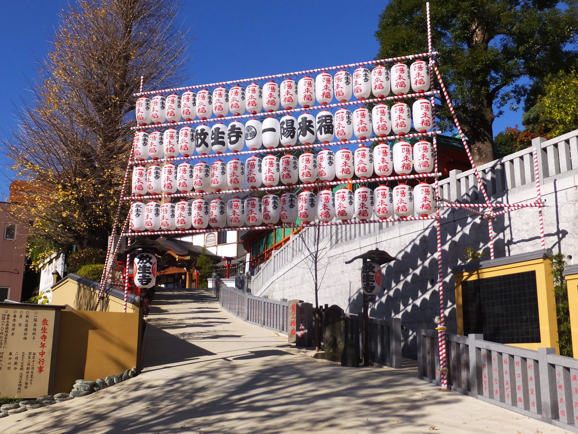 Entrance of Hōshō-ji temple in Shinjuku, Tokyo